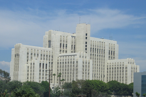 I took this picture myself of the LAC+USC Medical Center. Please observe license and properly cite in use outside Wikipedia.